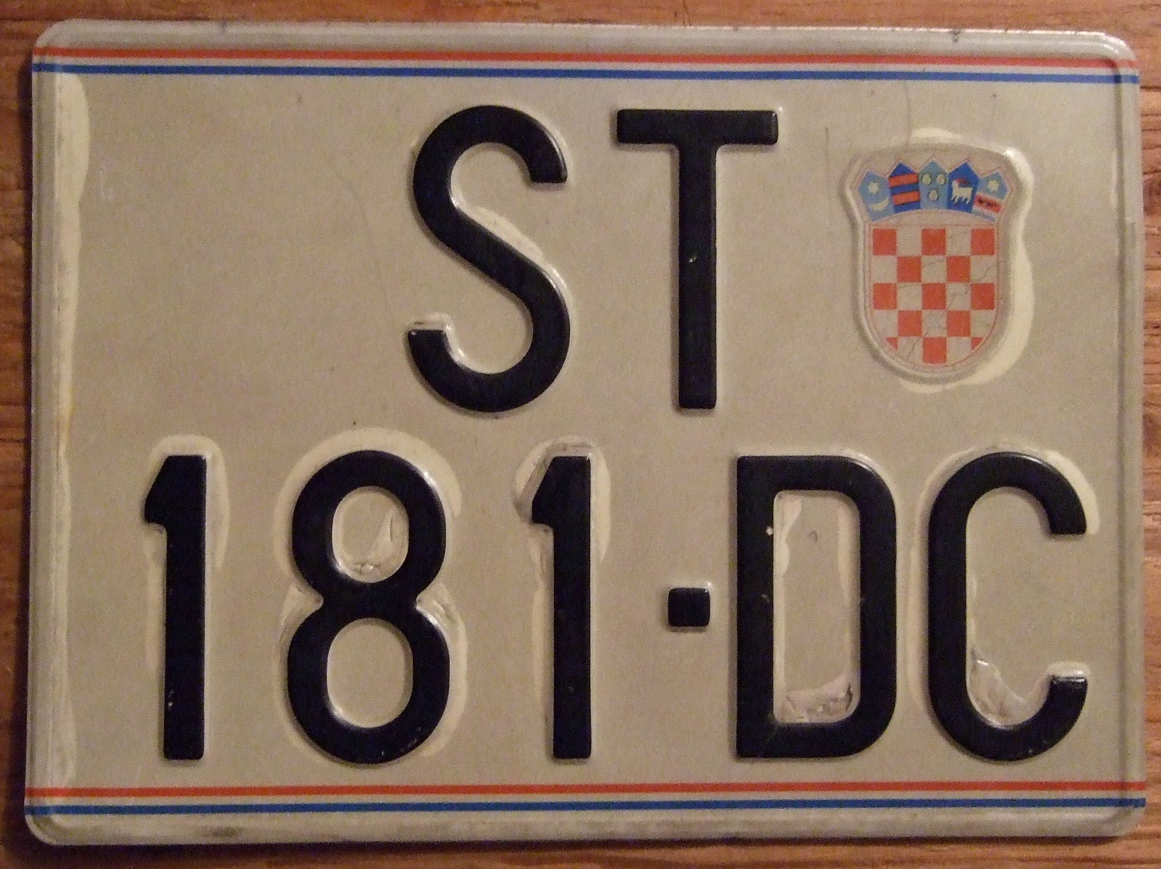 1991 series Croatian license plate two-line from the city of Split in that nation.